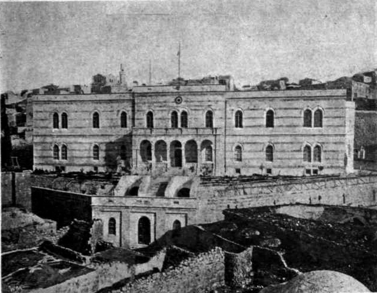 The Austro-Hungarian pilgrim Hostel in Via Dolorosa